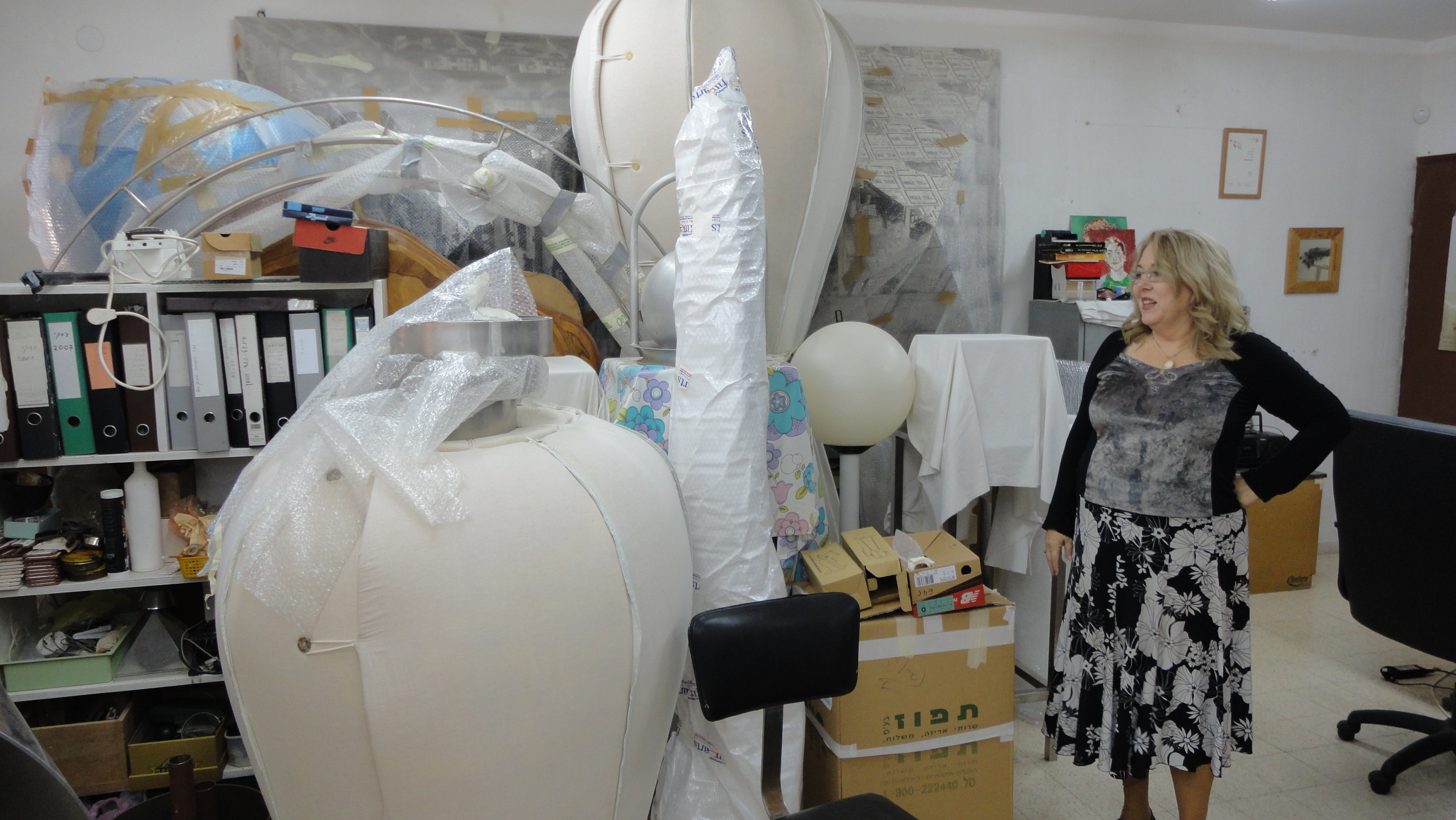 Gideon Gechtman studio, Rishon LeZion (2011)